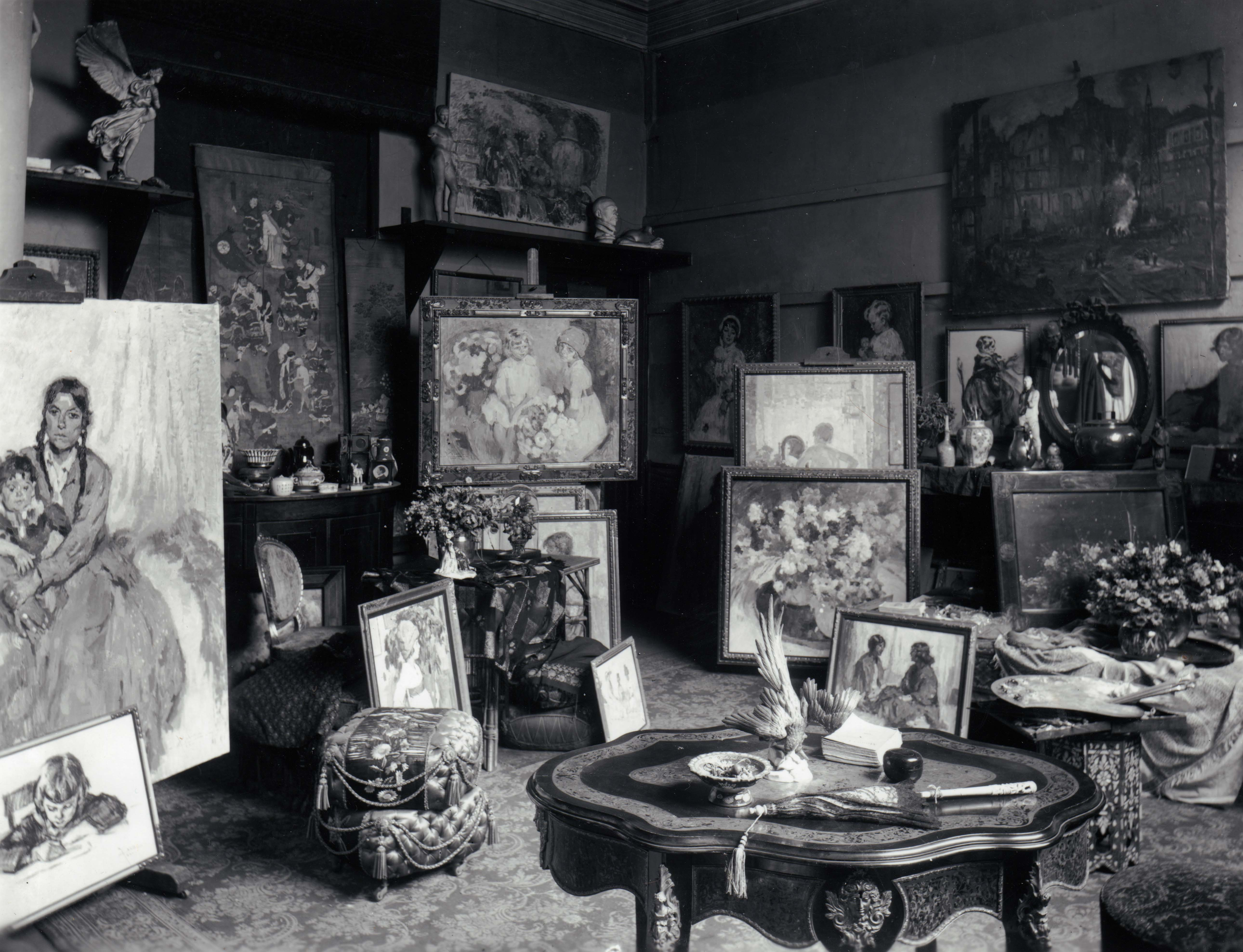 Jean Colin, schilderend aan zee, ca 1915